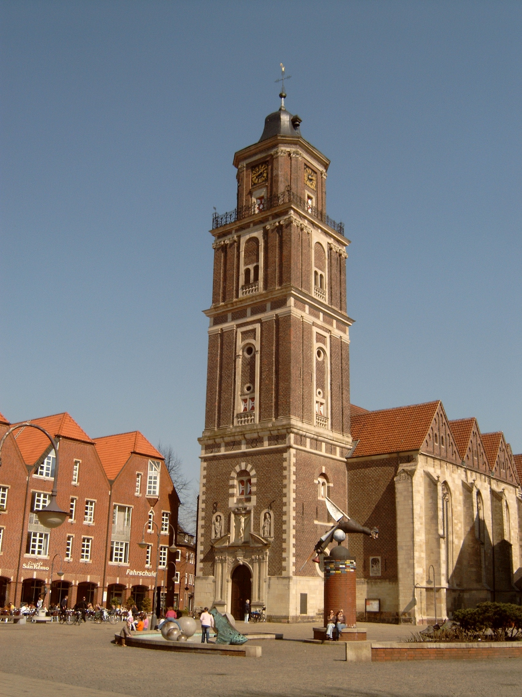 Coesfeld, tower